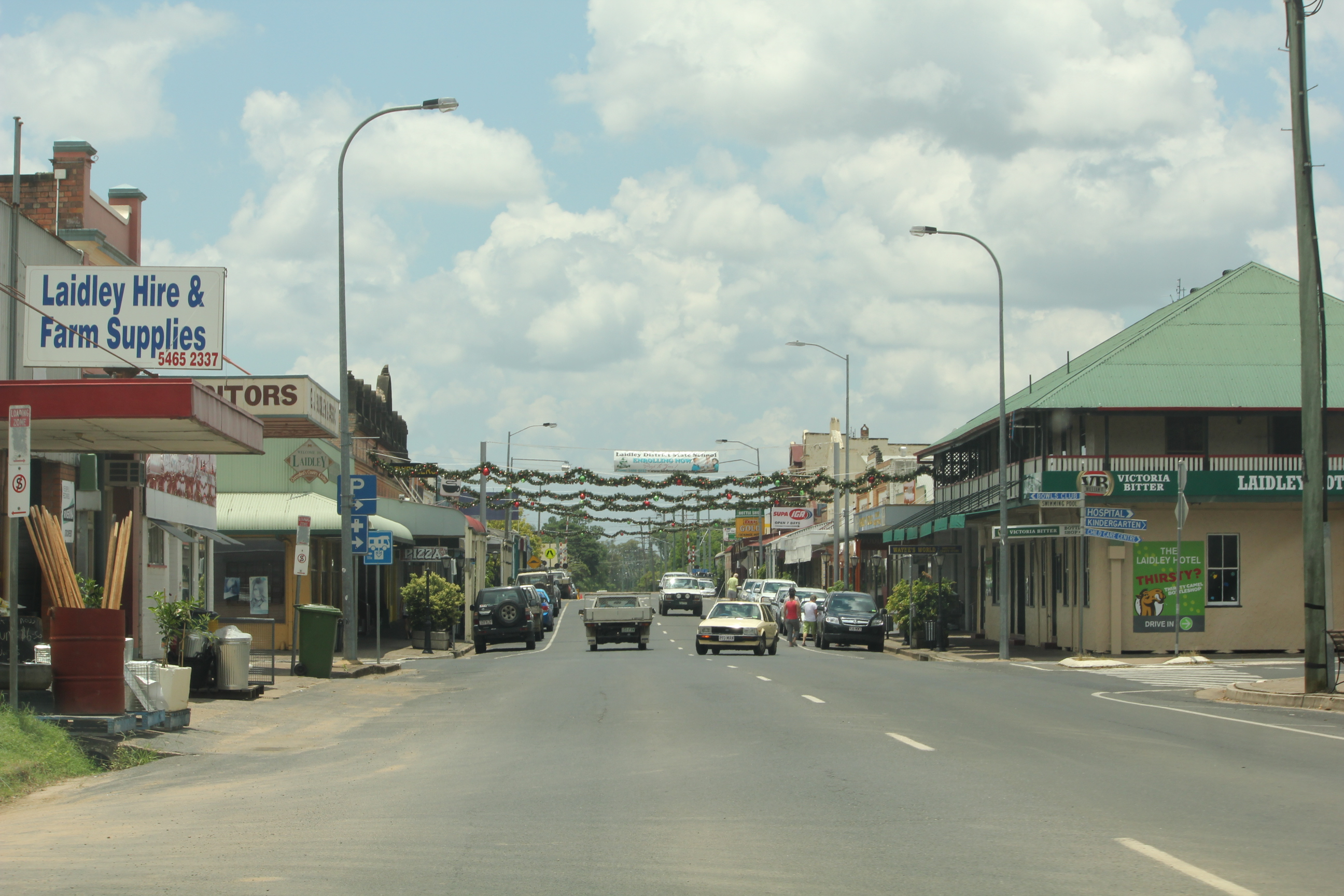 The main street of Laidley, a rural township in the Lockyer Valley Region. Taken in January 2011.